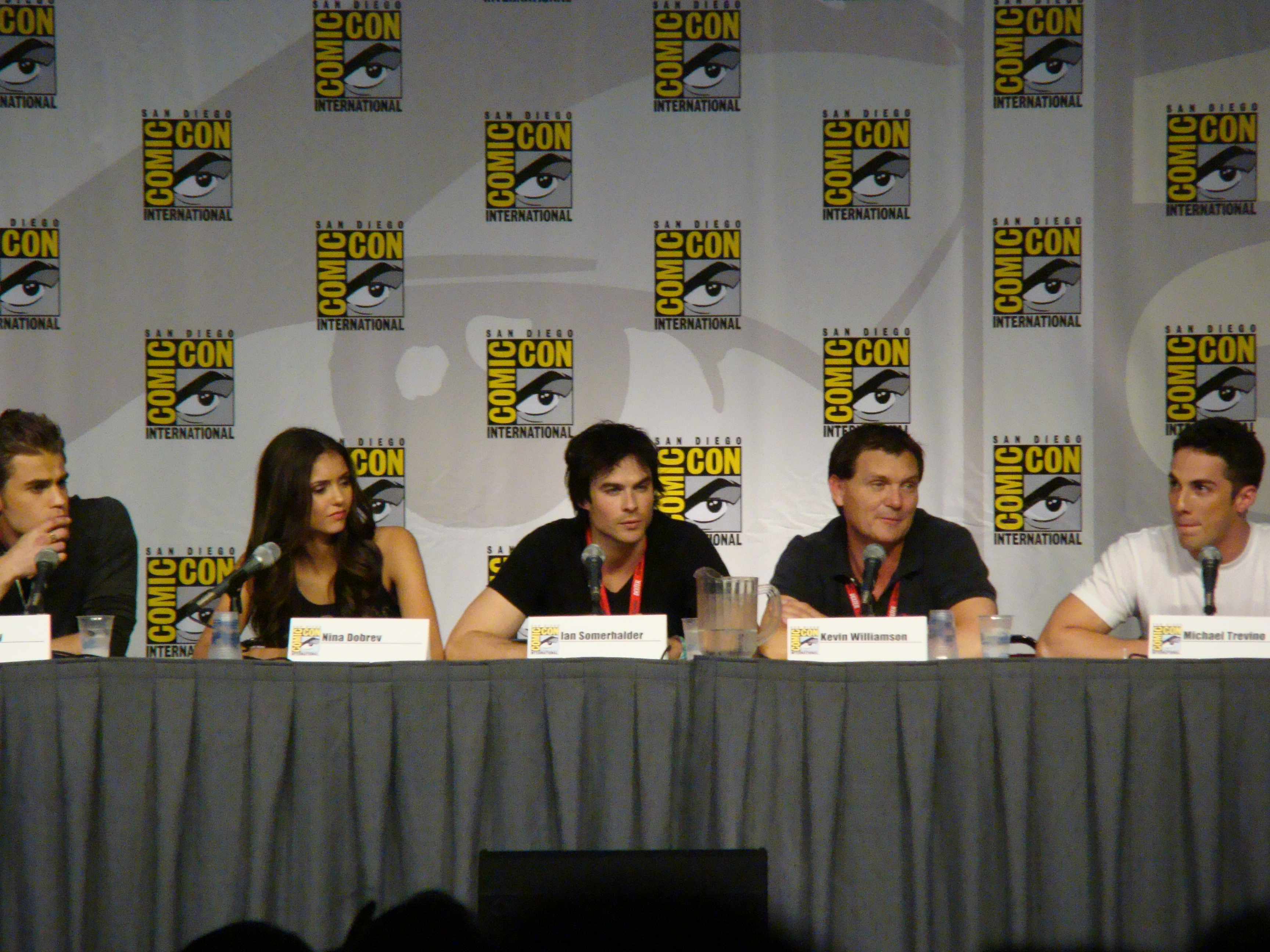 Paul Wesley, Nina Dobrev, Ian Somerhalder, Kevin Williamson & Michael Trevino